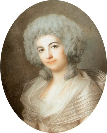 Depicted person: Marie Soulange Duperré (1759–1832), wife (1786) of Choderlos de Laclos (1741–1803)